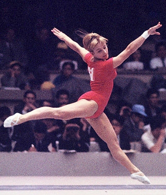 Sonia Iovan at the 1964 Olympics